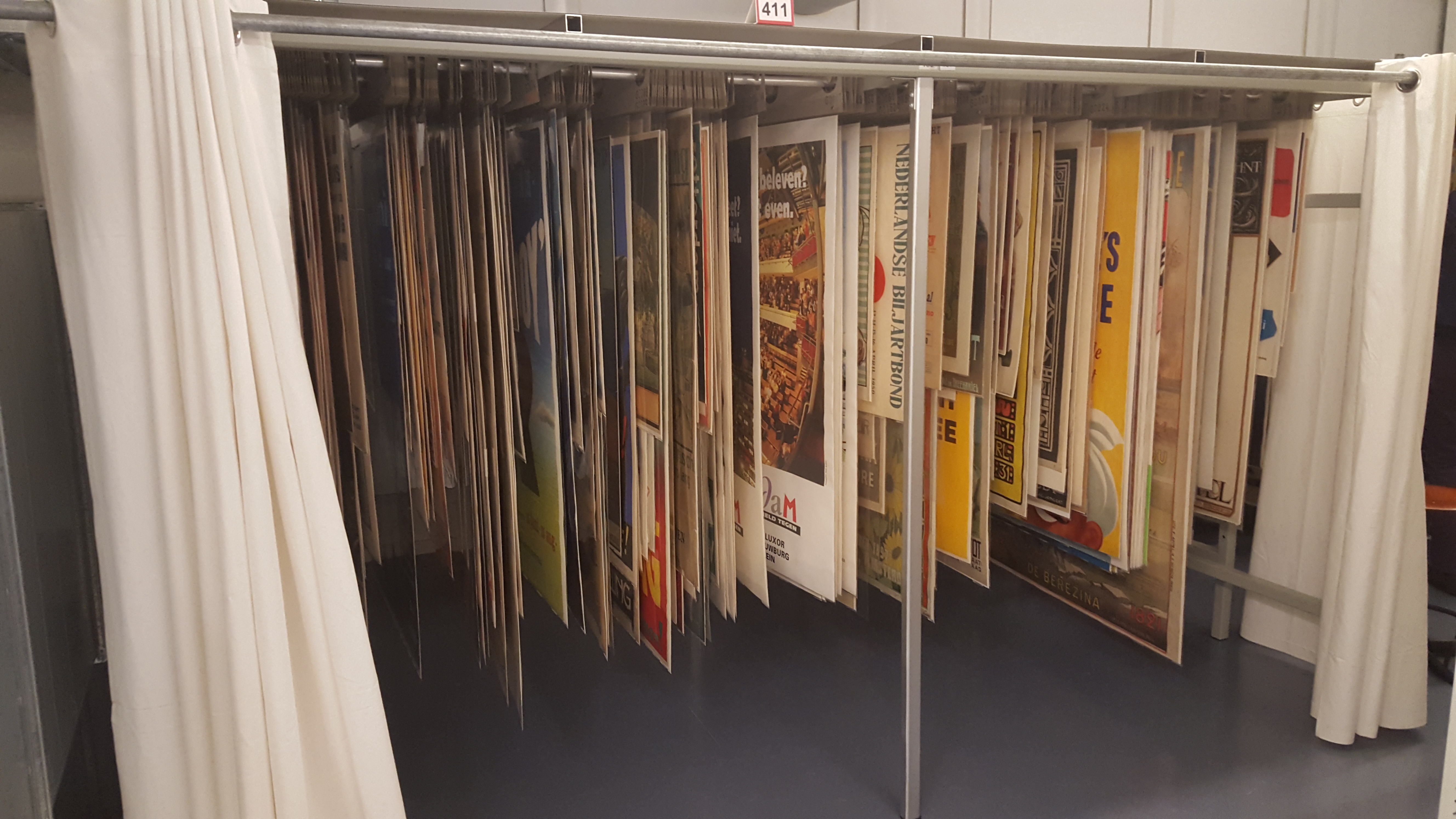 interior of the Stadsarchief Rotterdam in December 2015